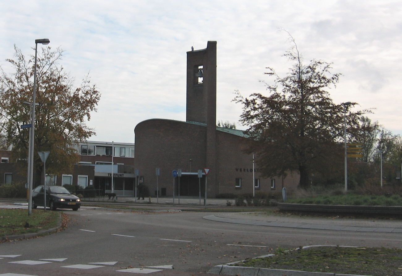 Verlosserkerk, Bussum